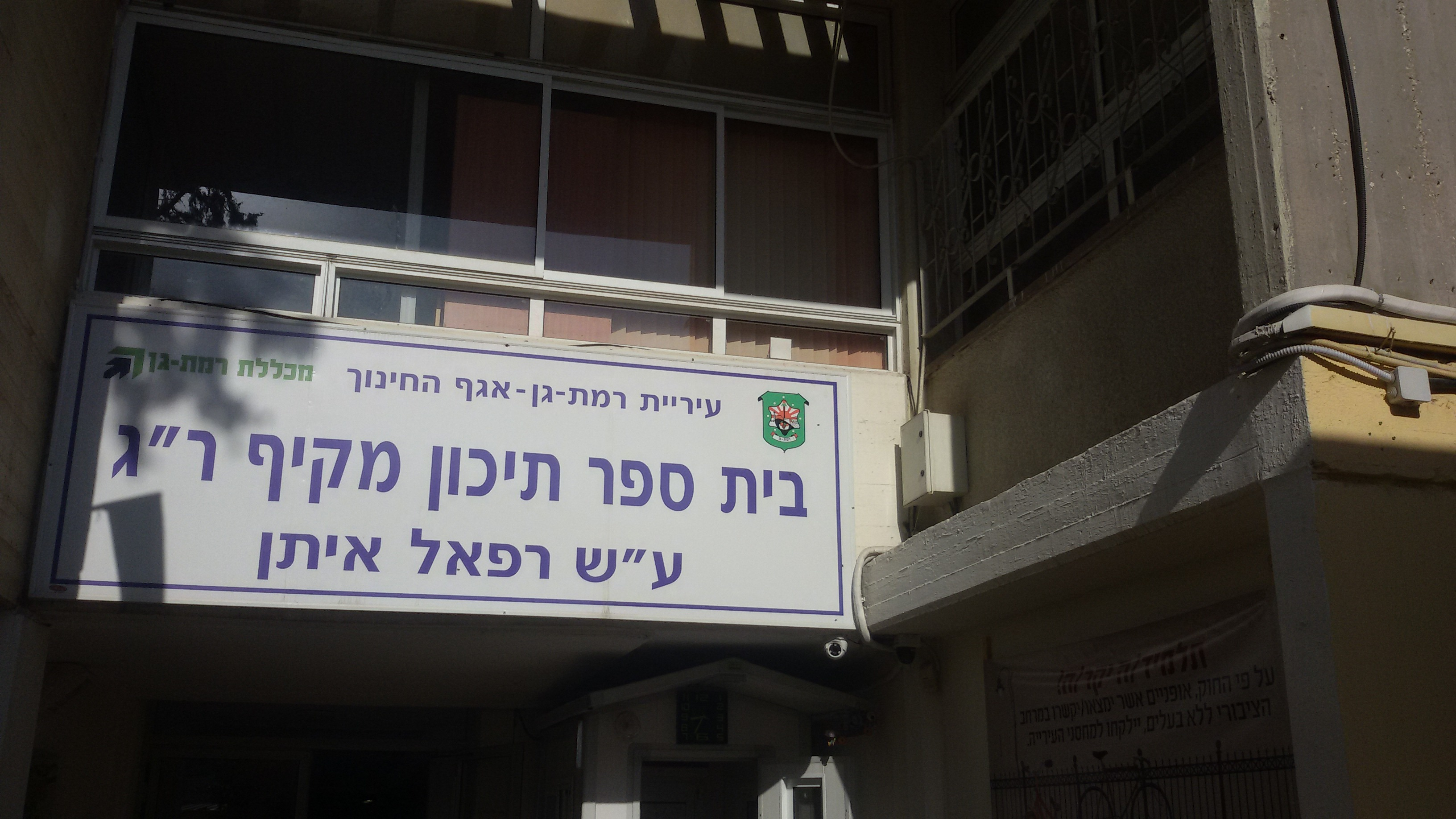 מקיף רמת גן